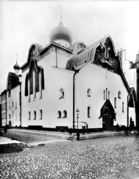 Kazan Church at the corner of Podrezova street and Malyi Prospekt of Petrograd Side (Saint Petersburg). Architect A. P. Aplaksin. Built in 1908-1913, rebuilt into a house in 1920s.